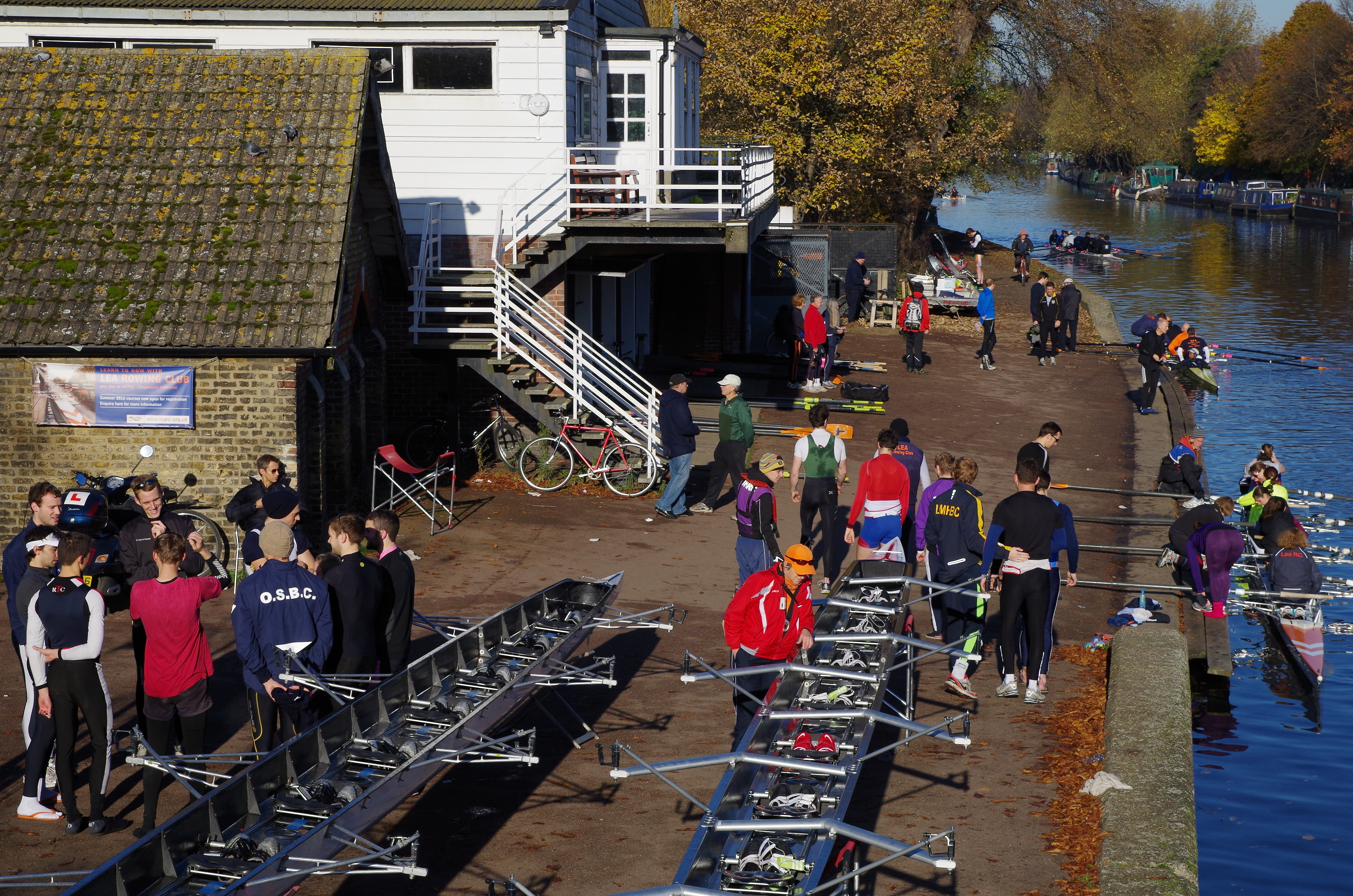 Lea Rowing Club in Tottenham, London, photographed from the pedestrian bridge over the Lea Navigation canal on a Saturday morning: groups setting up boats on cradles outside the boathouse, and disembarking after a practice session. The main boat house is the white structure, with boat storage at ground level and the rowing club bar upstairs, with access via the outside staircase. The brick building in the foreground is also a boathouse used by the same rowing club.